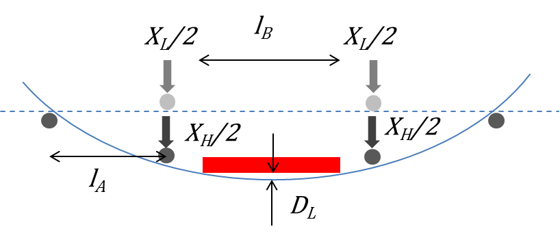 Description of variables used in formula